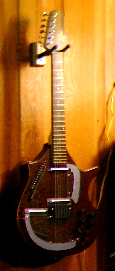 Coral electric sitar (red crack finish) at Aleph Studios It may be clone by Jerry Jones Guitars (Stars).